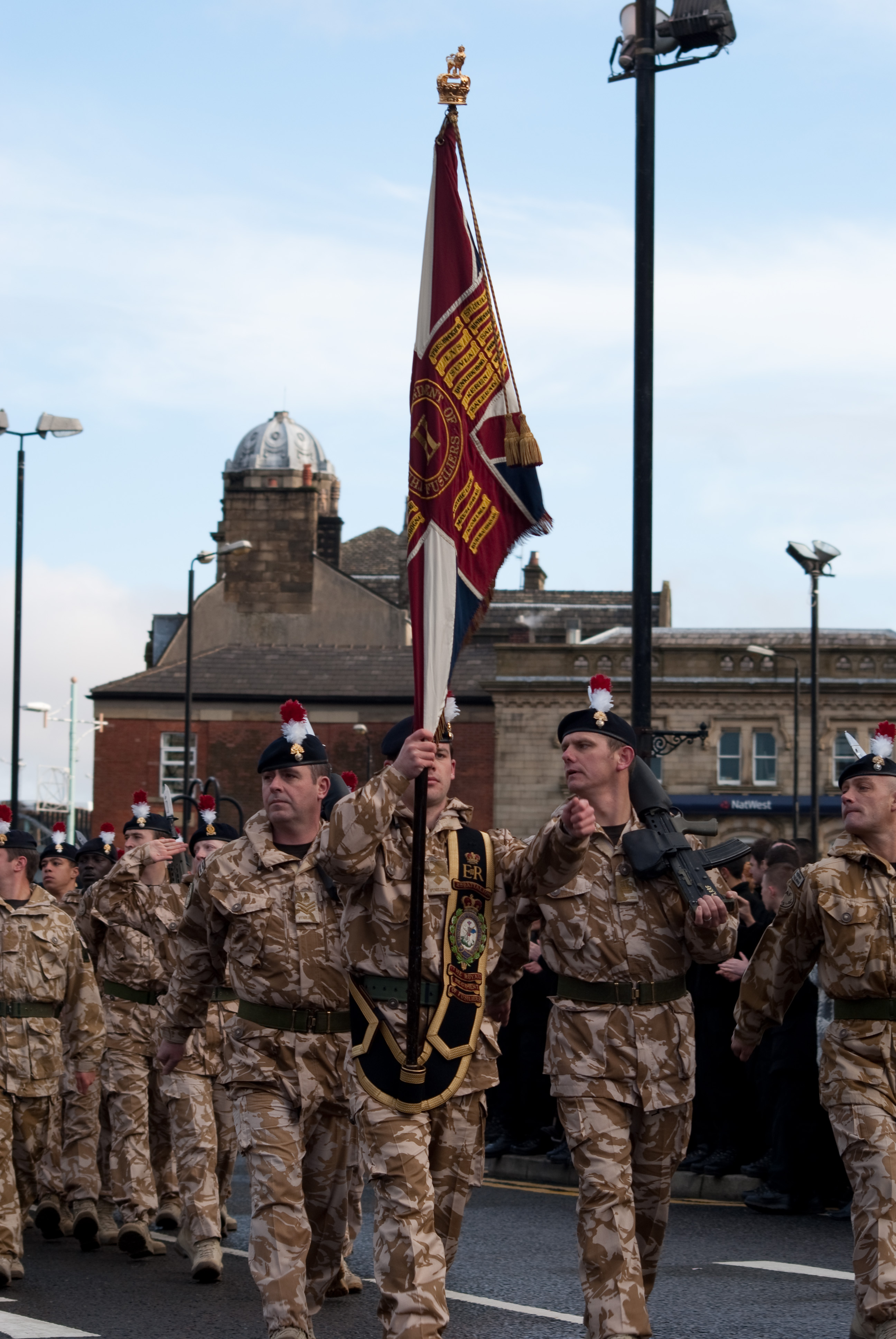 The Royal Regiment of Fusiliers exercising their Freedom of the City in Rochdale, Greater Manchester, England.